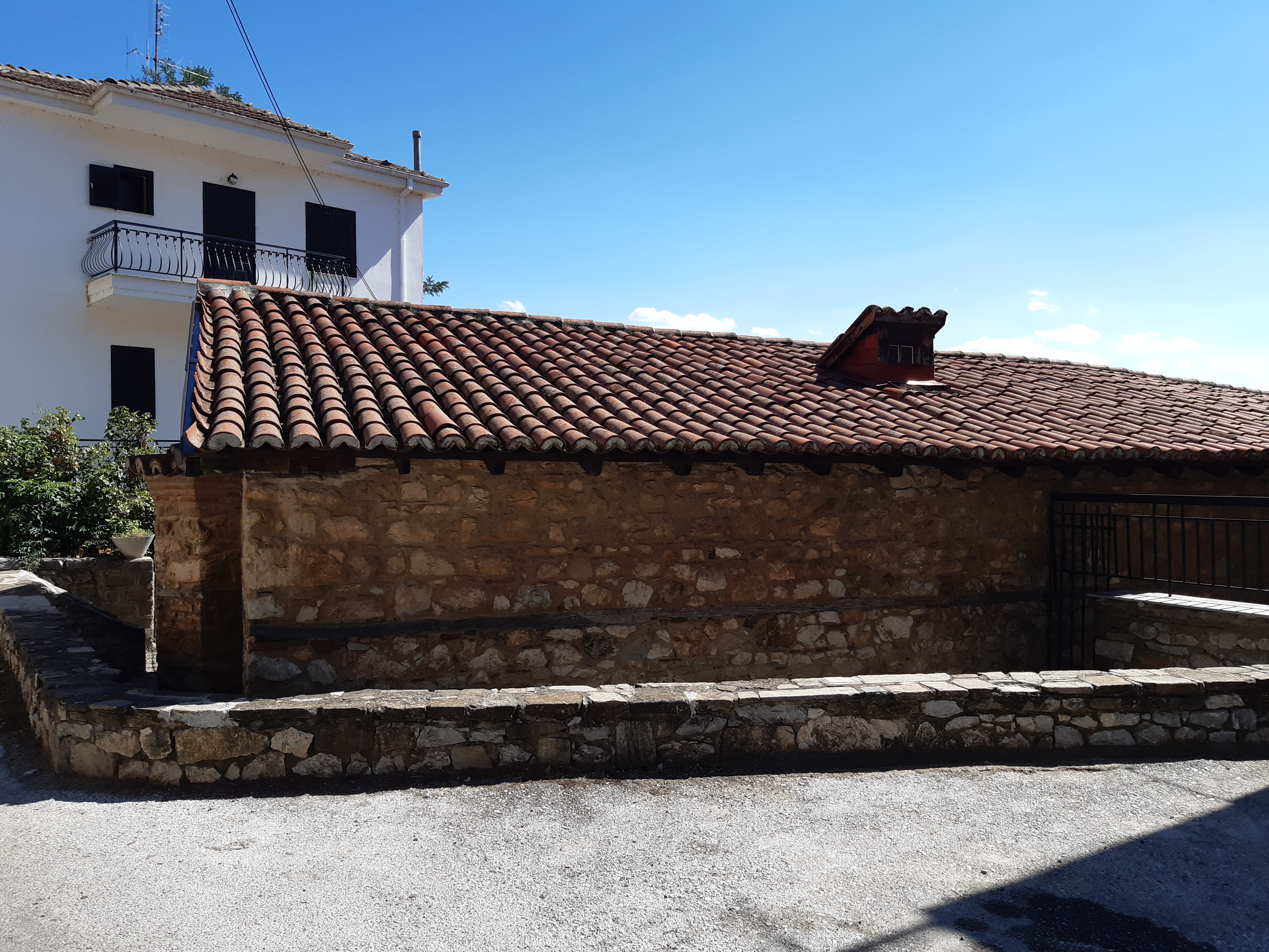 Saint Nicholas of Theologia Church